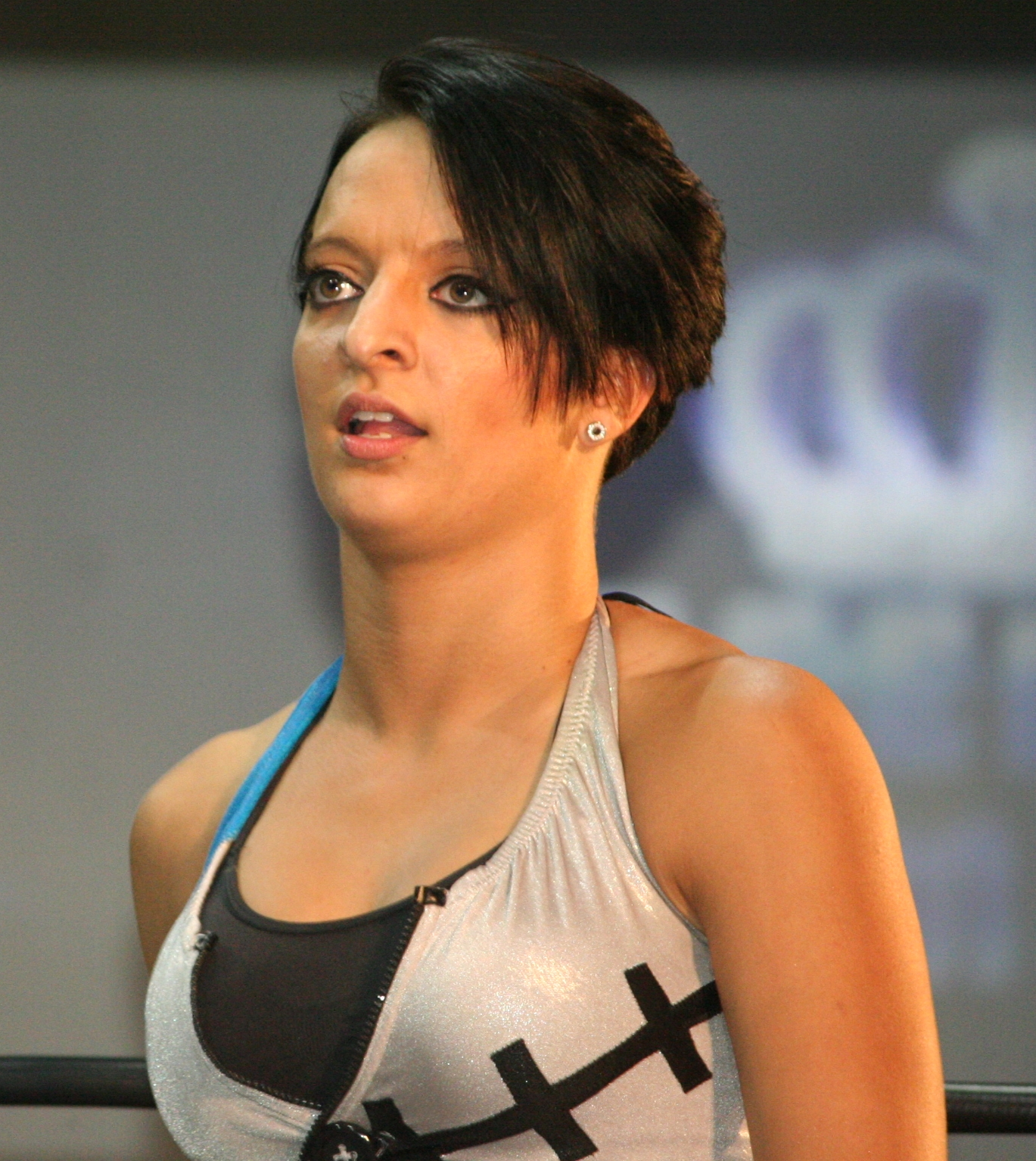 Heidi Lovelace before a match at the Queens of Combat 2 show in Charlotte, North Carolina on June 13, 2014.